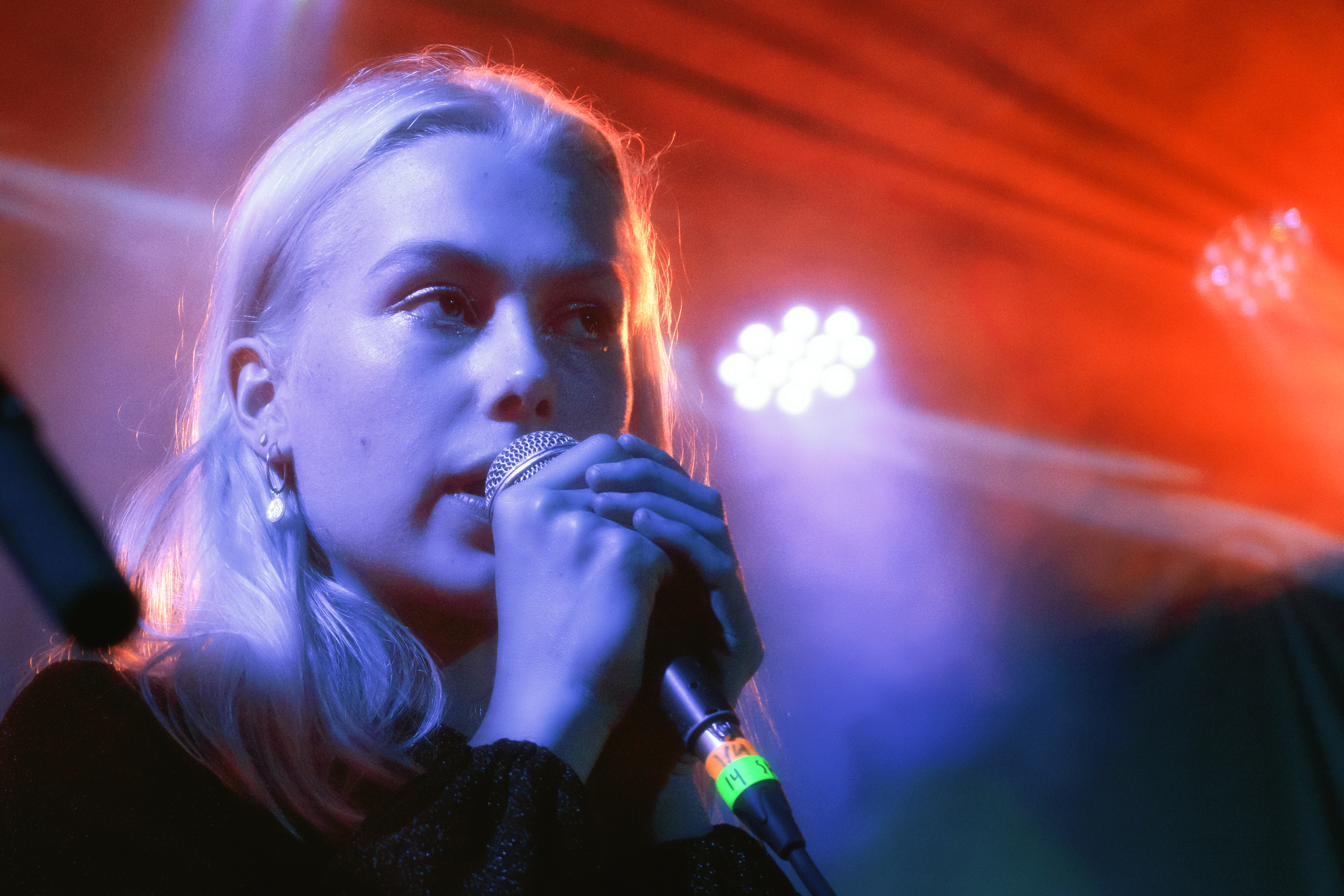 Phoebe Bridgers in July 2018, at the crocodile in Seattle.